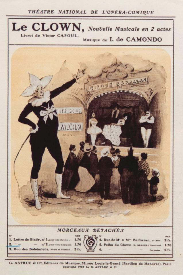 Programm Cover for the Opera Le Clown by Isaac de Camondo.